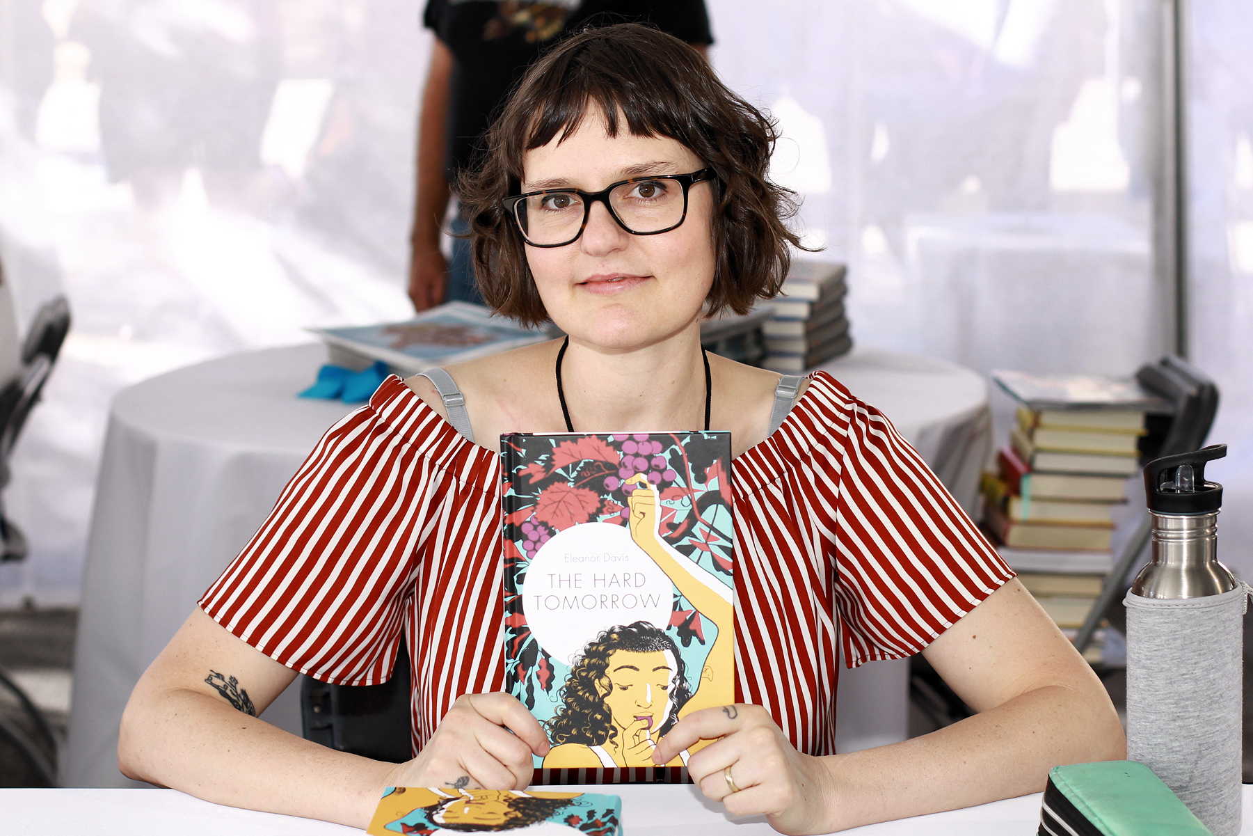 Illustrator Eleanor Davis at the 2019 Texas Book Festival in Austin, Texas, United States.